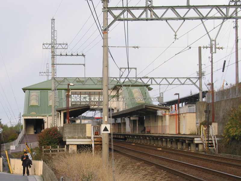 Minamigaoka Station, Tsu, Mie, Japan